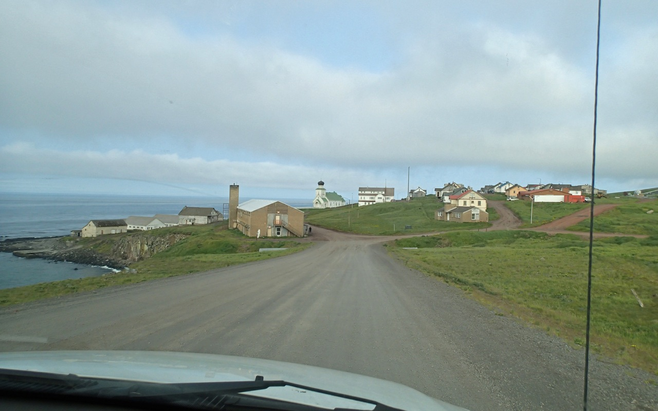 2012-08-08-TG1b-StGeorge-Isl-8080897a.jpg